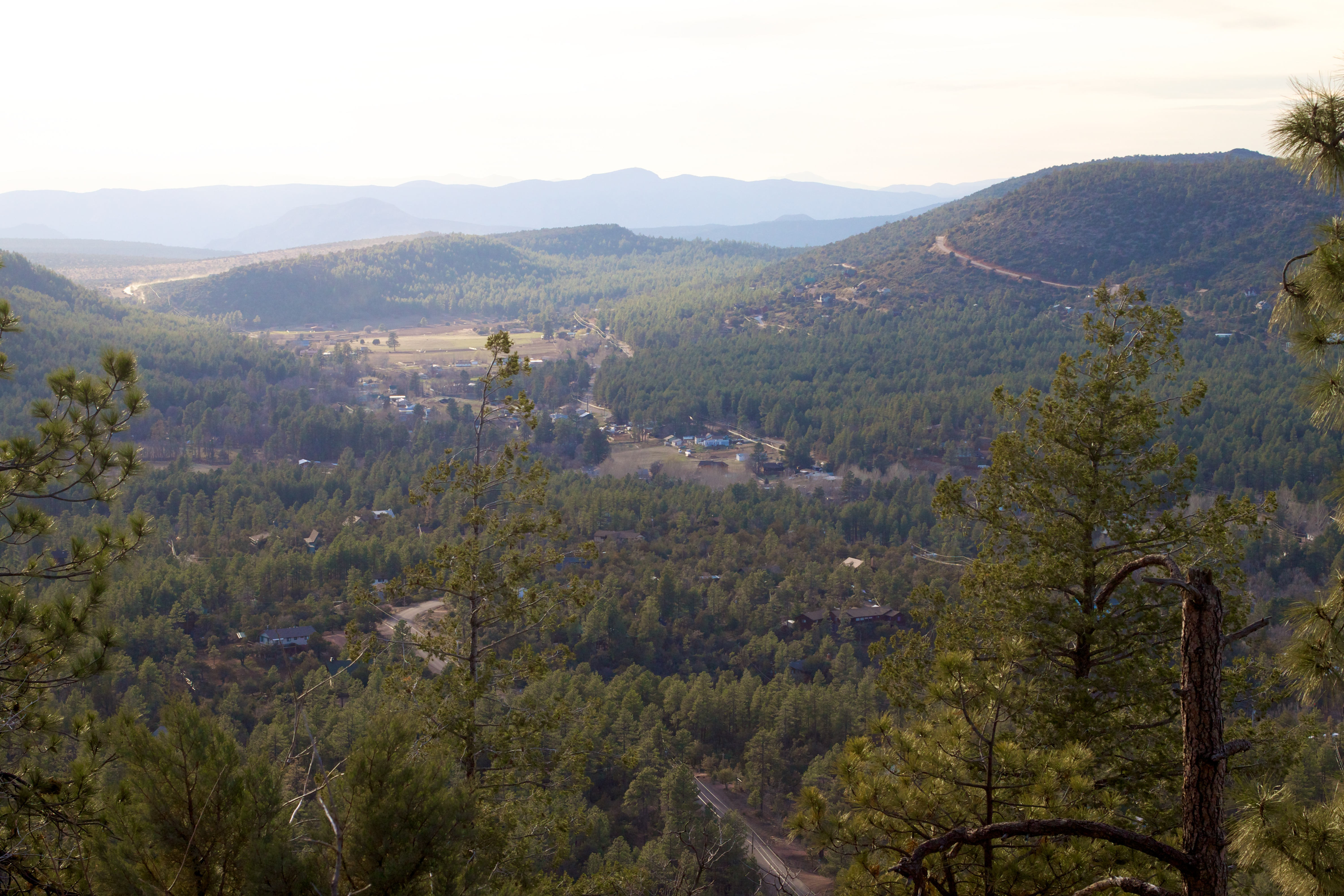 Viewed from the top of Strawberry Mountain, in Gila County, Arizona. Looking at the central residential part of the town of Strawberry, along Fossil Creek Road, which swings left and curves up around the ridge in the background.